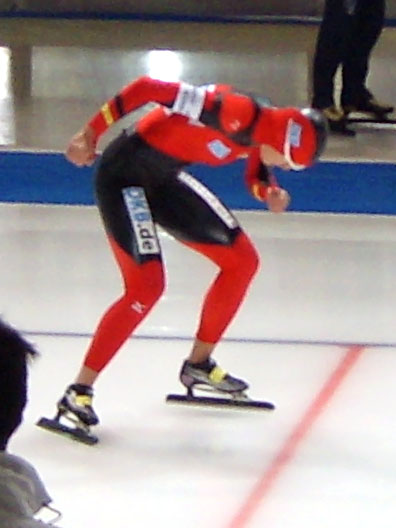 Gabriele Hirschbichler (GER) befor 1000 meters world cup speedskating race in Berlin, Germany.